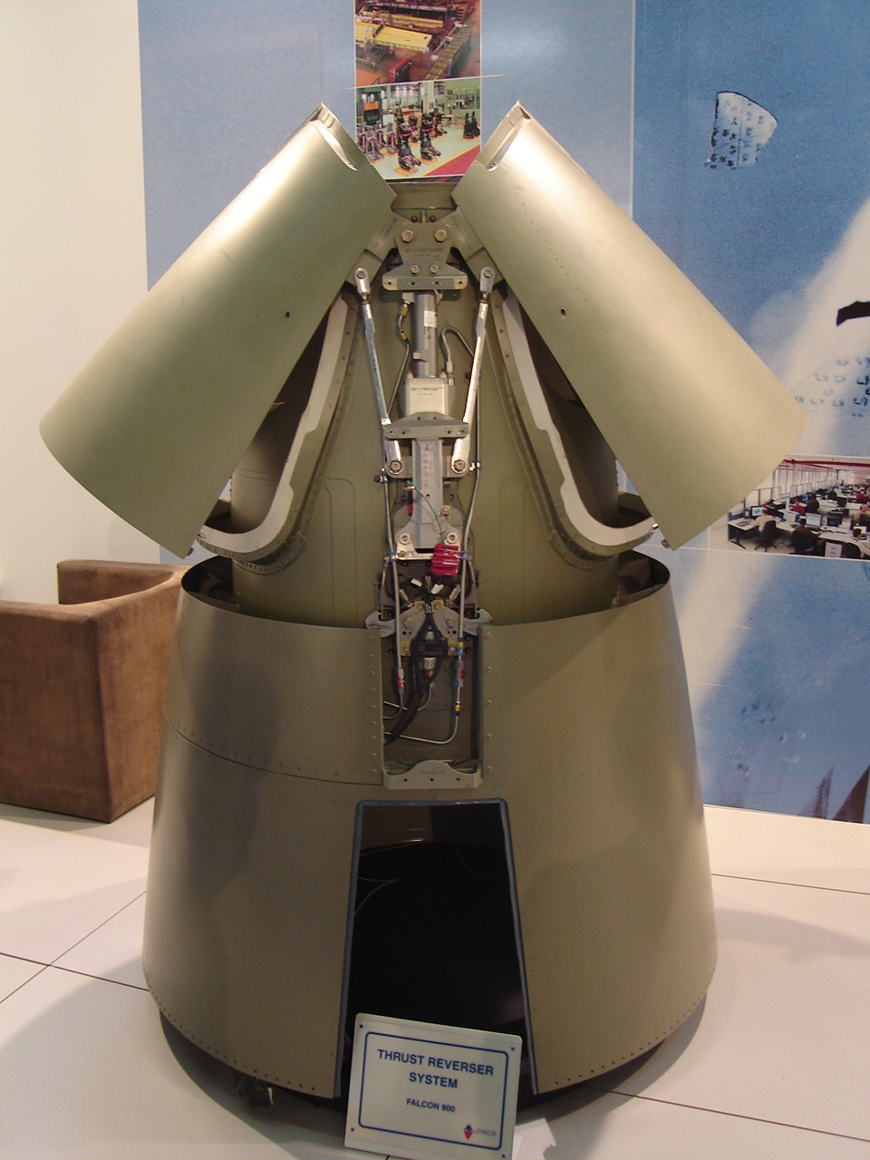 The Falcon 900 thrust reverser system in the semi-engaged state showing linkages at the Paris Air Show 2007